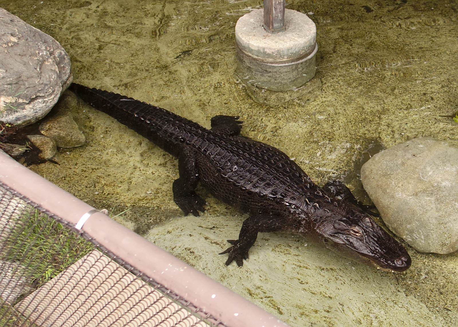 Reggie the alligator basking in his fame at the Los Angeles Zoo.